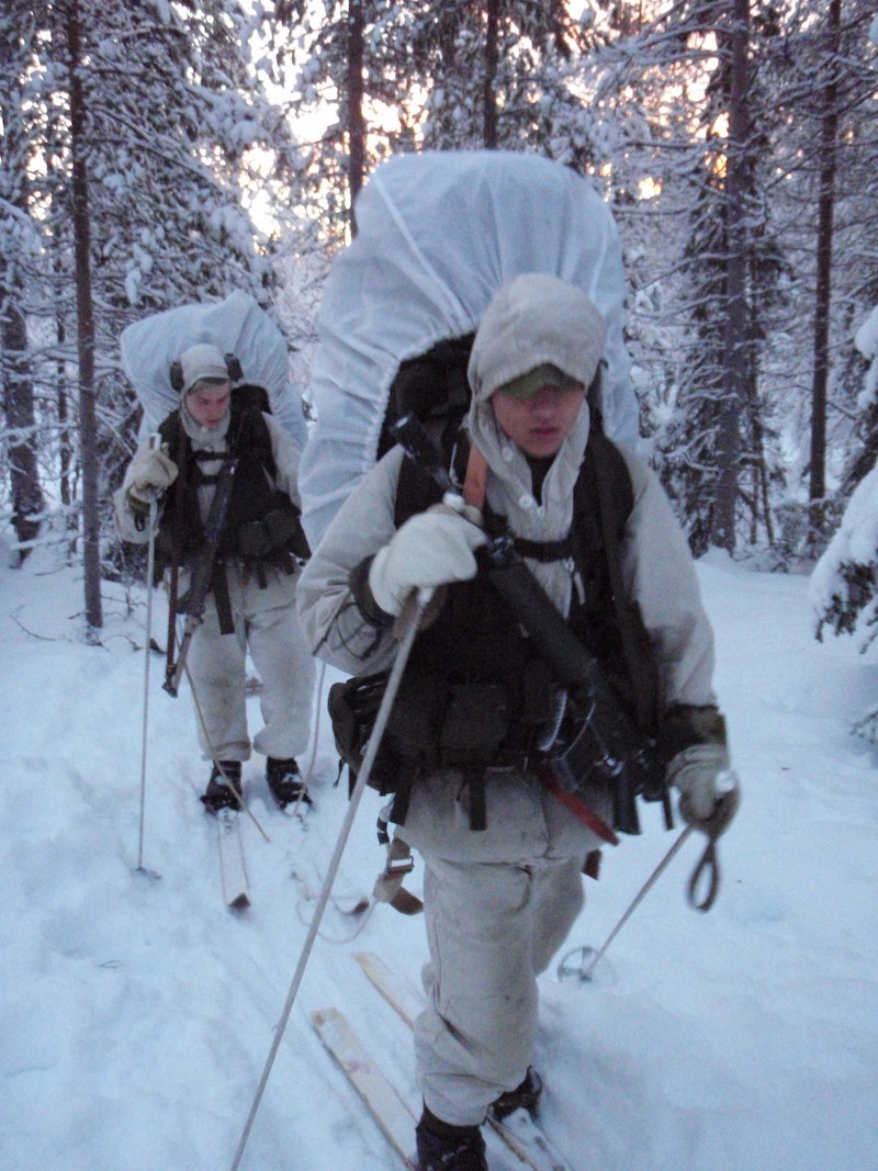 Swedish Arctic Rangers.